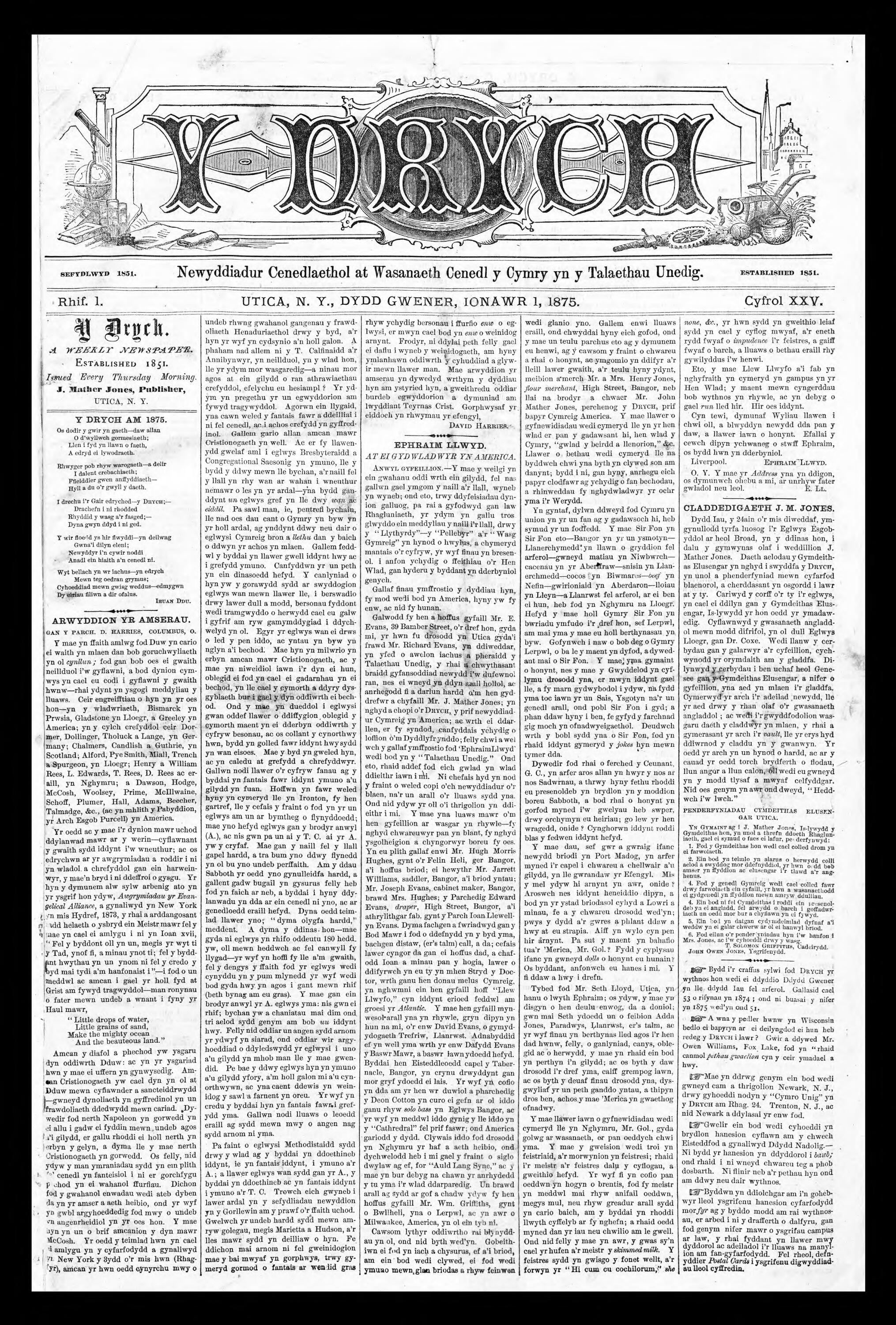 Front page of the earliest surviving copy of the Welsh newspaper Y DrychCymraeg: Tudalen flaen y copi cynharaf sydd yn bodoli o'r papur newydd Cymraeg Y Drych